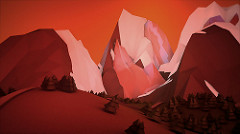 mountains made in Cinema 4D with Mt. Mograph